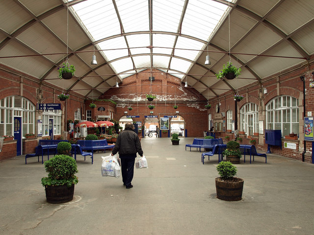 Bridlington Railway Station Foyer, Bridlington, East Riding of Yorkshire, England.